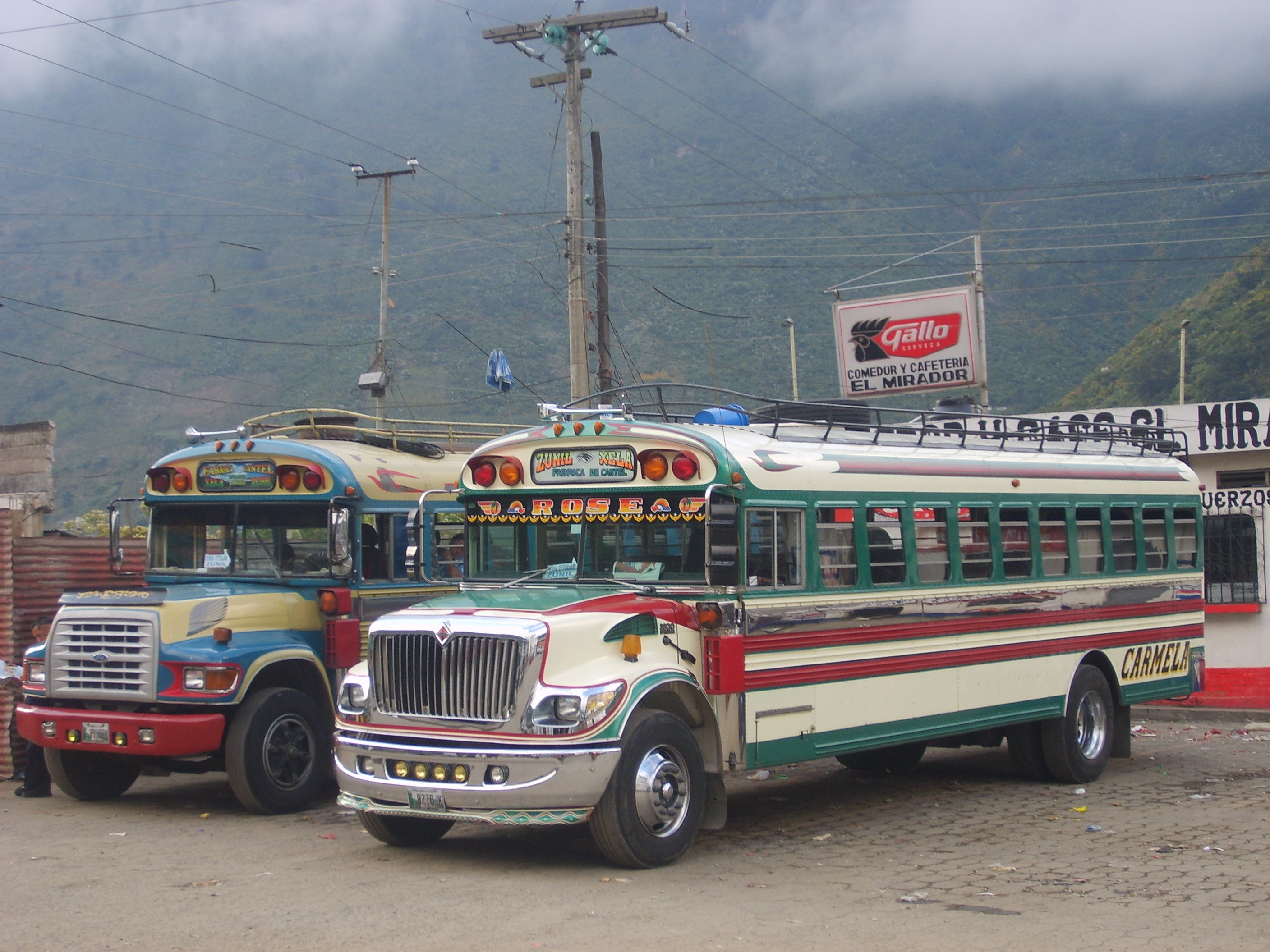 Typical Guatemalan public buses (recycled US school buses made by Blue Bird Co.) parked in Zunil, Guatemala. They operate on a route to Quetzaltenango (Xela) via Cantel.